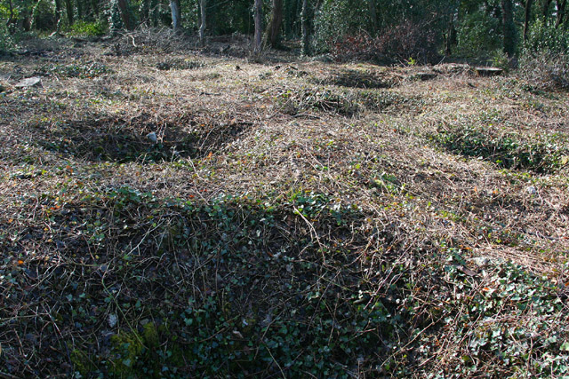 Weston-super-Mare: Worlebury hillfort. Recent tree clearance of part of the 10-acre site, in the hands of North Somerset Council, has revealed some of the 93 storage pits first discovered in the 1850s, when the site was excavated by a group of antiquarians. Grain was found in a number of the pits, which are unusually large at 6 to 8 feet in diameter and typically 6 feet deep. For a good guide to the hillfort, see ‘Worlebury. The story of the Iron Age hill-fort at Weston-super-Mare’, obtainable from Woodspring Museum, Burlington Street, Weston-super-Mare BS23 1PR. Phone 01934 612006